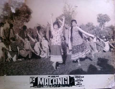 Film Malangi (1965) Music Poster.